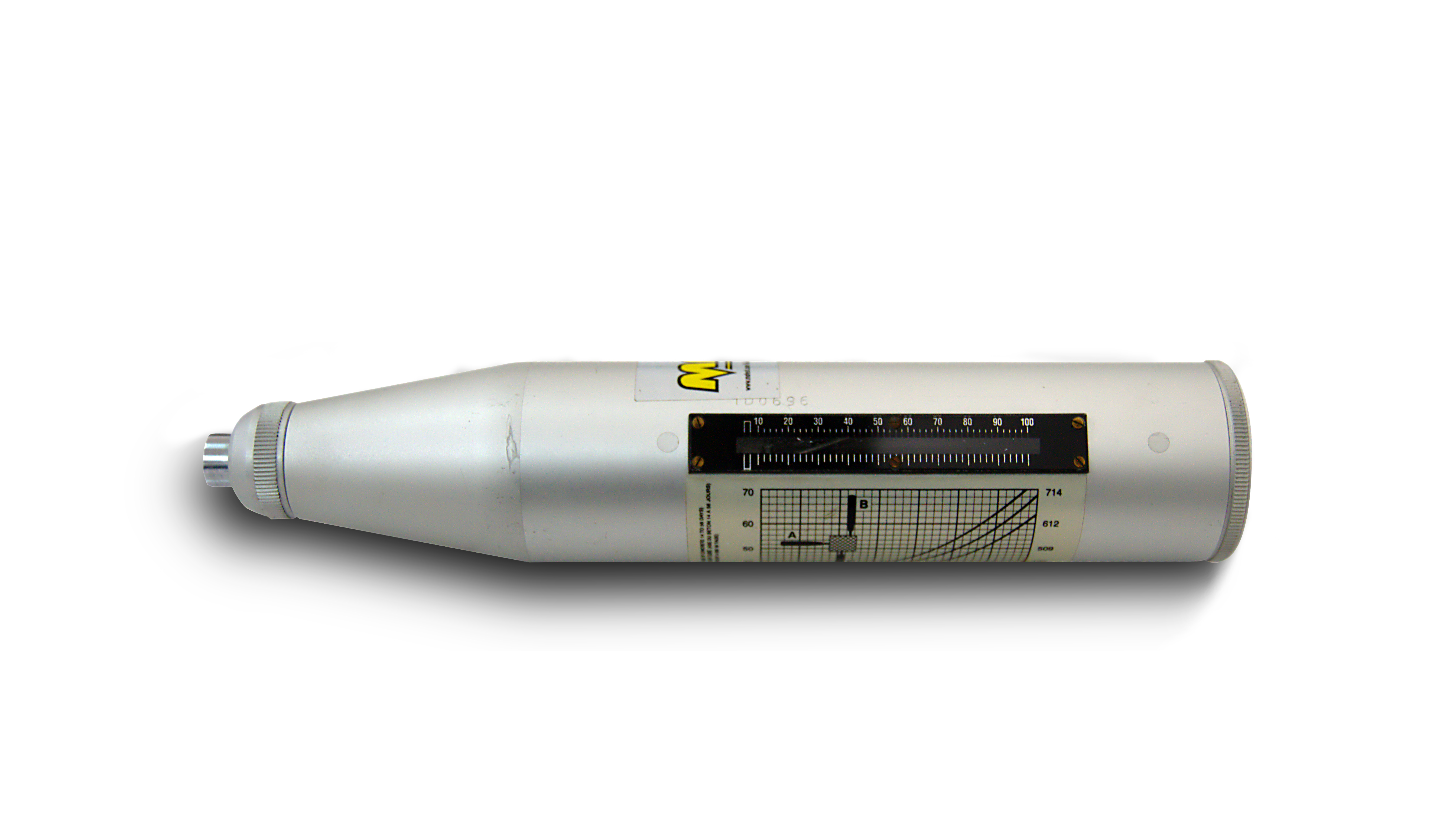 A sclerometer, used to mesure the scratch hardness of concrete This photograph was taken with a Nikon D3100 This JPG graphic was created with GIMP.